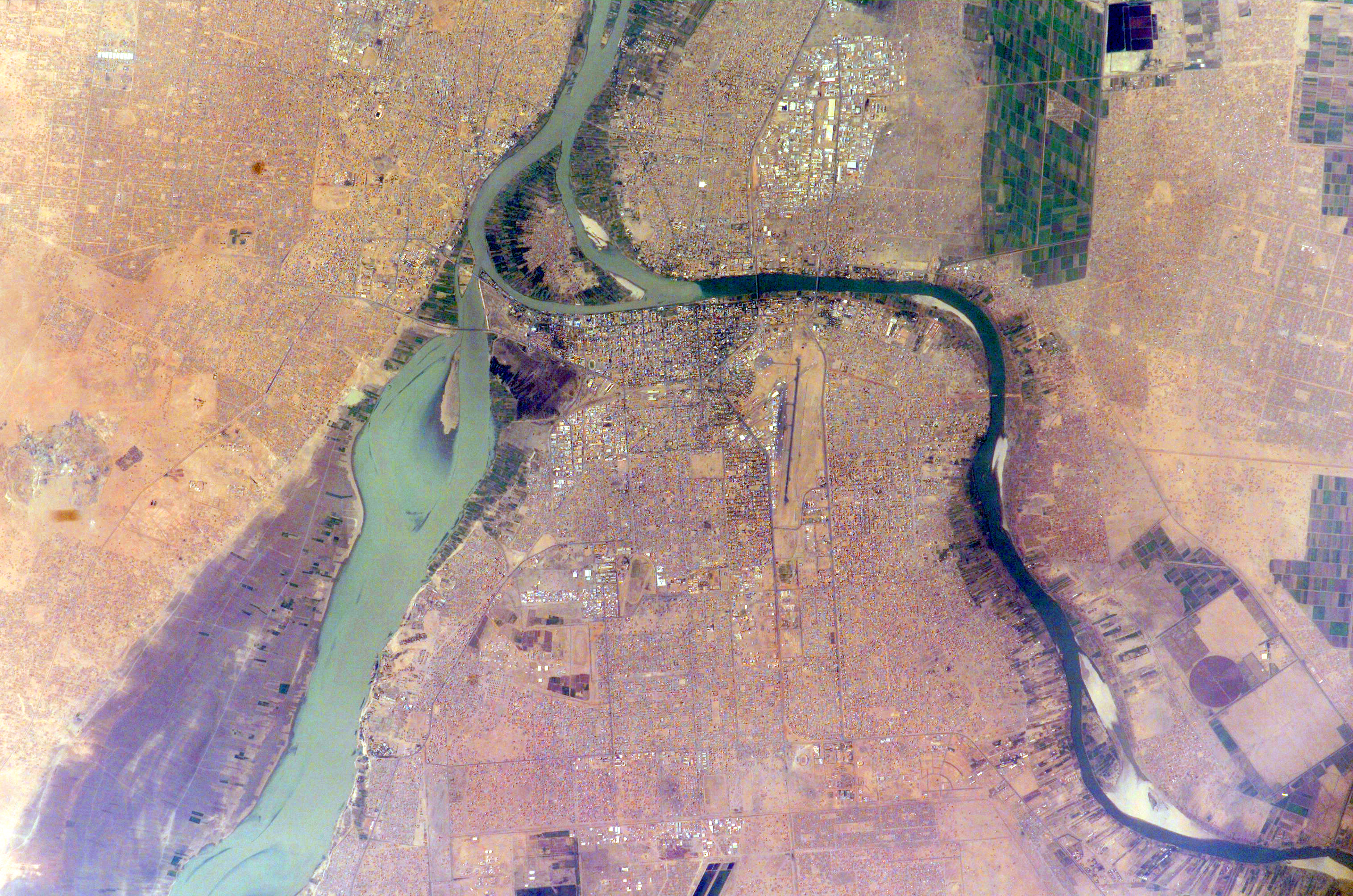 Satellite picture of Khartoum, Omdurman and Bahri Astronaut photograph ISS010-E-23451 was acquired April 7, 2005, with a Kodak 760C digital camera with a 400 mm lens, and is provided by the ISS Crew Earth Observations experiment and the Image Science & Analysis Group, Johnson Space Center.